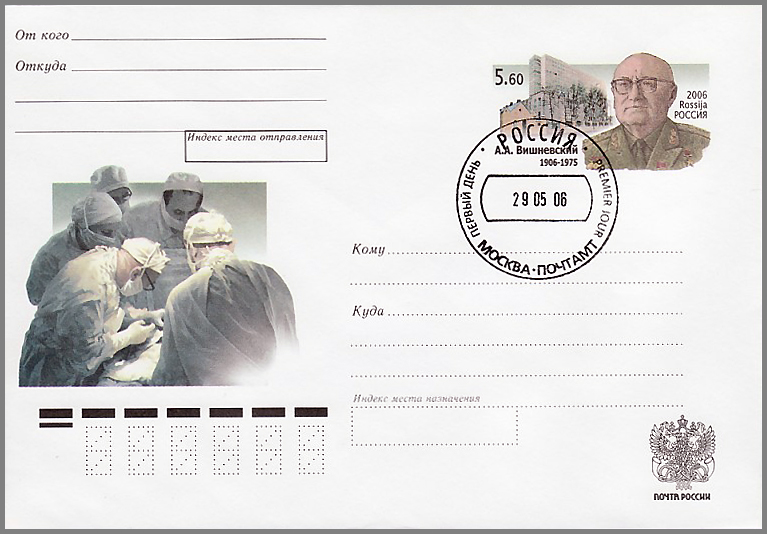 Russia, 2006. Envelope with commemorative stamp (EWCS) № 155. 100 birth anniversary A. A. Vishnevsky, a surgeon. First day of issue postmark 05/29/2006 Moscow, Central Post Office.